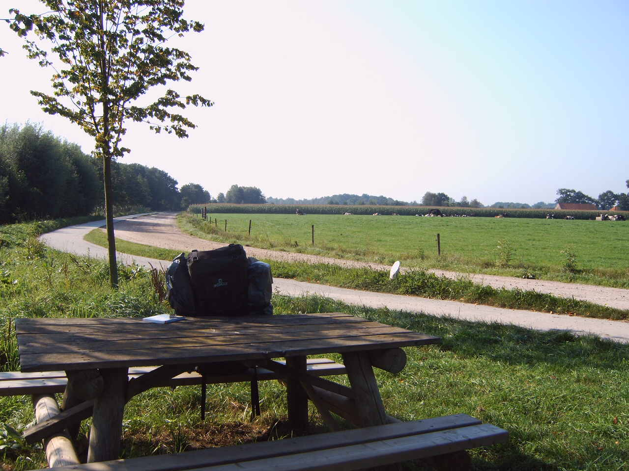 Scene on the Zuiderzeepad long distance hiking route, east of Nijkerk, the Netherlands